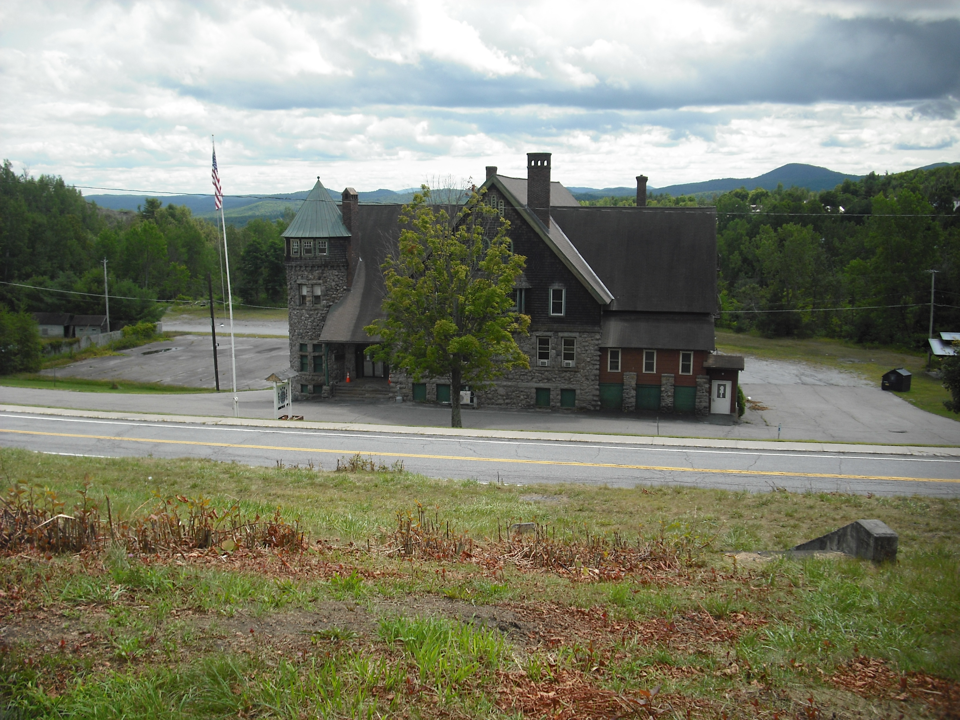 Witherbee Memorial Hall Currently a VFW hall, was once part of Mineville High School.